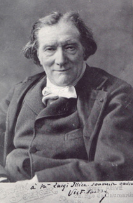 Victorien Sardou, French playwright